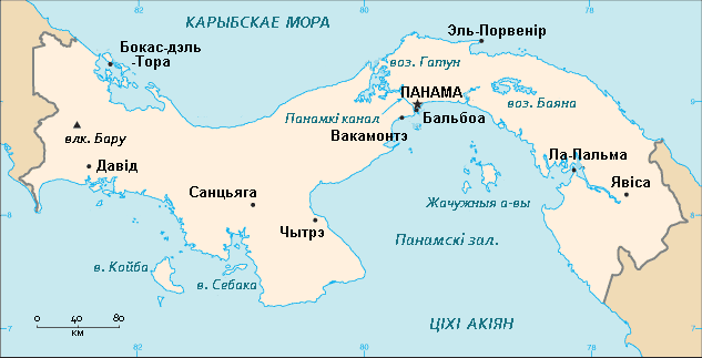 Map of Panama in Belarusian